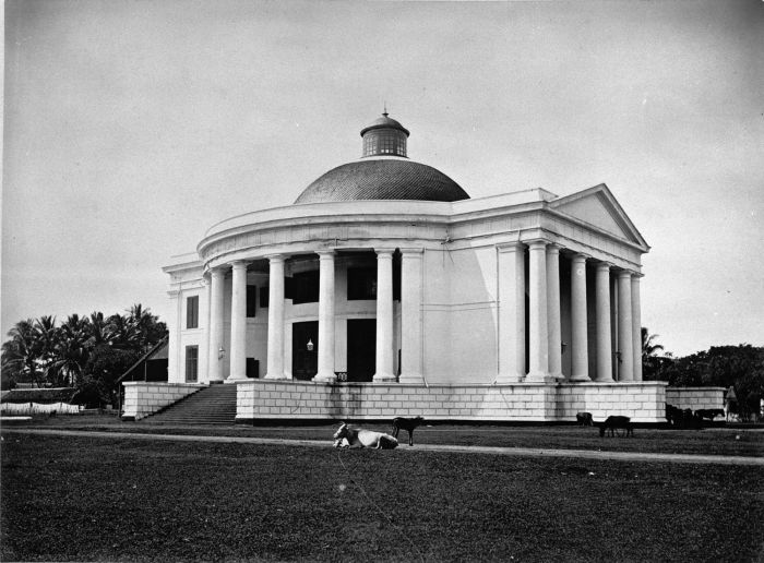 The 'Willemskerk' Church in Batavia.